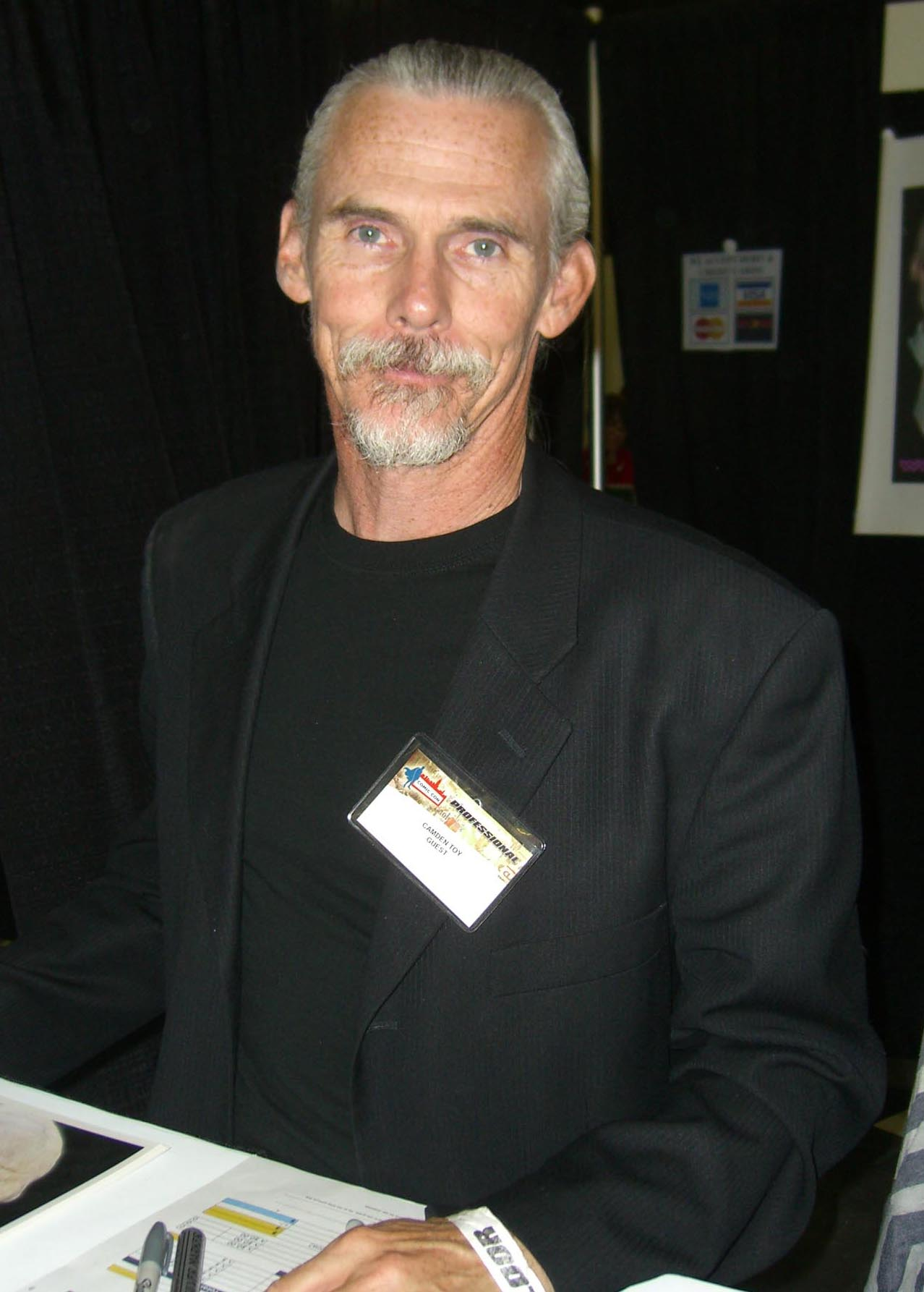 Actor Camden Toy at the Big Apple Convention in Manhattan. Photographed by Luigi Novi. This photo may only be used if the photographer is properly credited. (See Licensing information below.)